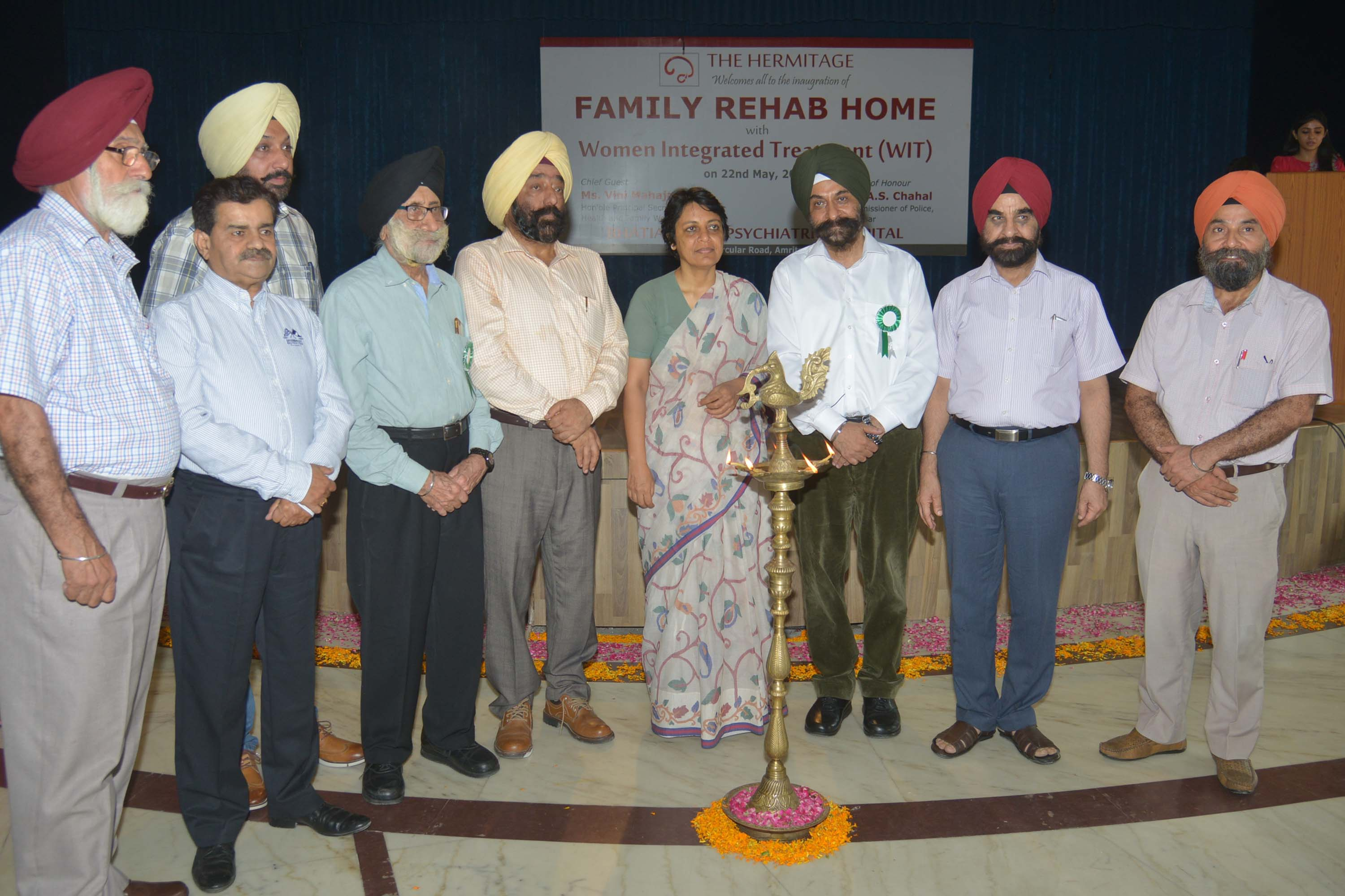 The Hermitage was inaugurated by Mr. D.K. Jain, then Chief Justice of Punjab and Haryana High Court. It is based on a concept given by Mother Teresa that Love is the only tool which can cure any addiction. The Program in Hermitage provides inner vision & honesty.